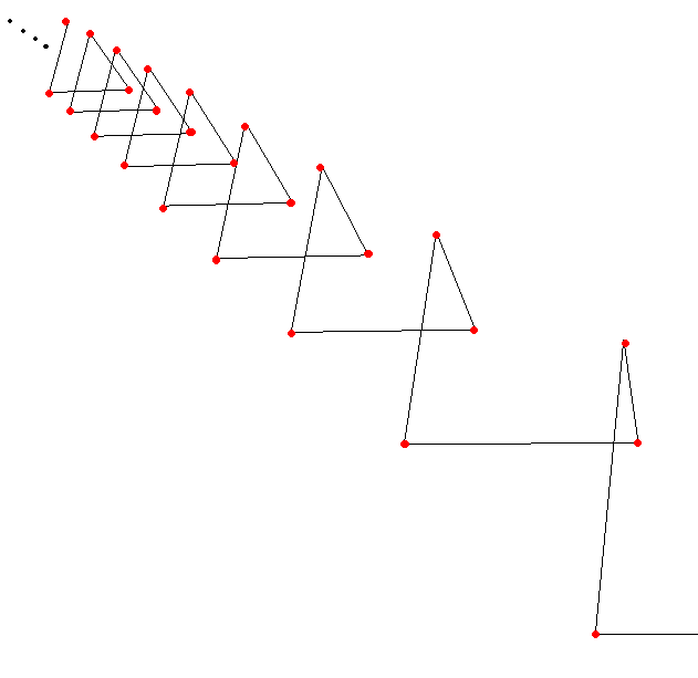 Example helical regular apeirogon. Data Obj format v 1 0 0 v -0.5 0.866 1 v -0.5 -0.866 2 v 1 0 3 v -0.5 0.866 4 v -0.5 -0.866 5 v 1 0 6 v -0.5 0.866 7 v -0.5 -0.866 8 v 1 0 9 v -0.5 0.866 10 v -0.5 -0.866 11 v 1 0 12 v -0.5 0.866 13 v -0.5 -0.866 14 v 1 0 15 v -0.5 0.866 16 v -0.5 -0.866 17 v 1 0 18 v -0.5 0.866 19 v -0.5 -0.866 20 v 1 0 21 v -0.5 0.866 22 v -0.5 -0.866 23 v 1 0 24 v -0.5 0.866 25 v -0.5 -0.866 26 v 1 0 27 v -0.5 0.866 28 v -0.5 -0.866 29 l 1 2 3 4 5 6 7 8 9 10 11 12 13 14 15 16 17 18 19 20 21 22 23 24 25 26 27 28 29